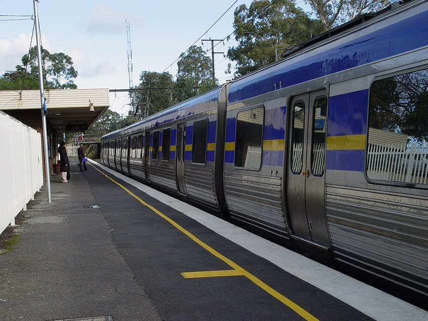 Ashburton railway station's single platform in Melbourne, with a Connex Comeng train.